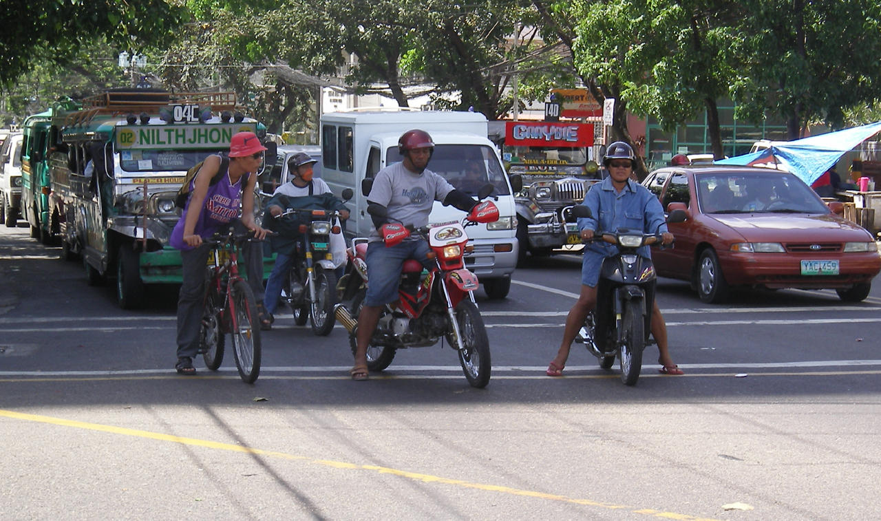 Traffic scene Philippines Description: Trafic in Cebu-City, Gorordo Avenue, Escario Street , close to Social Security System Builing Author: Peter Binter